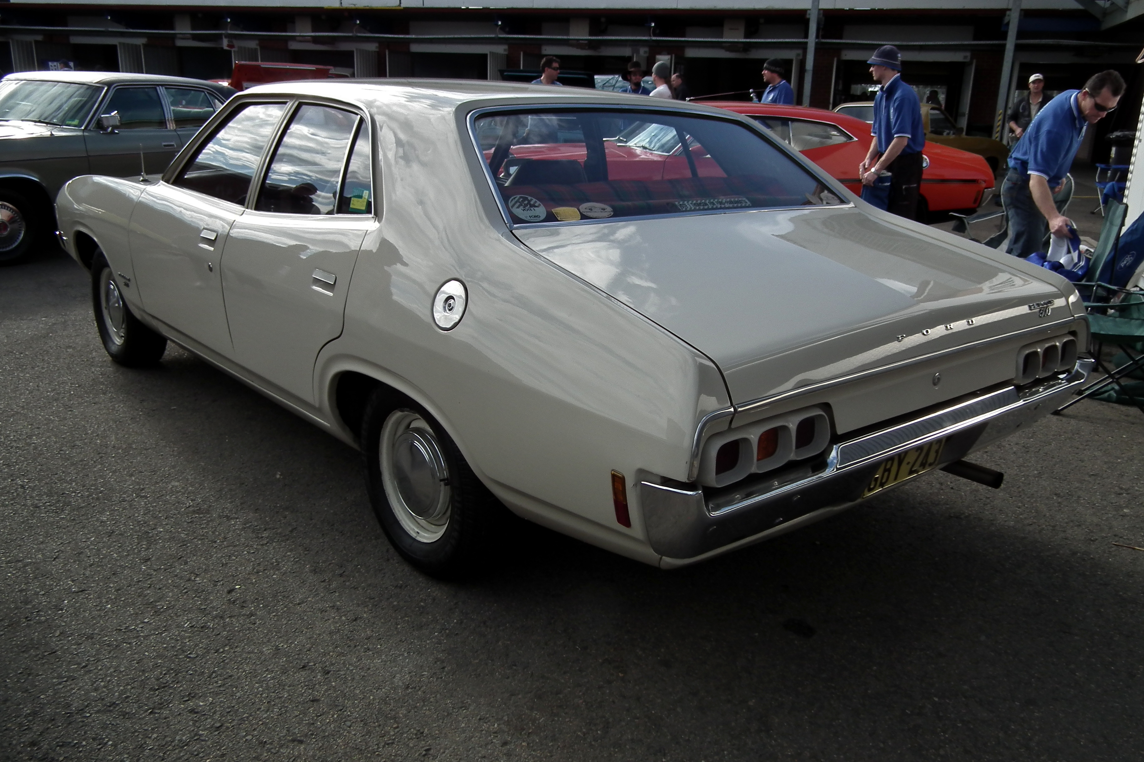 1972 Ford XA Falcon 500 sedan. Taken at the 2011 New South Wales All Ford Day, held at Eastern Creek Raceway.